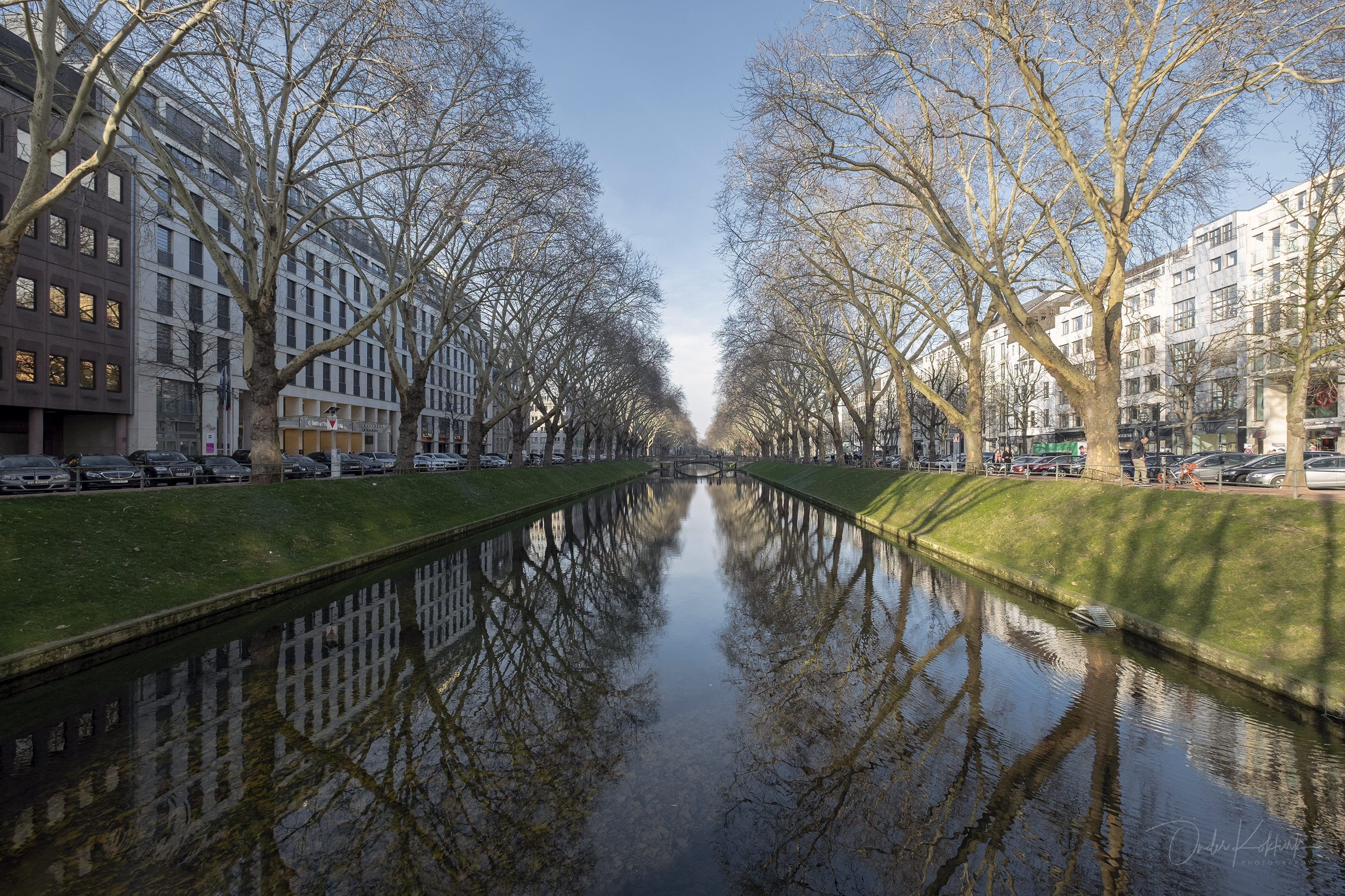 Düsseldorf, Germany, Königsallee by Onder Kokturk, #WPWP